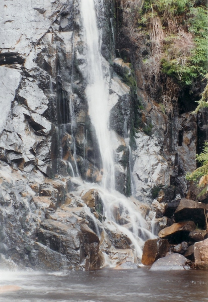 Depicted place: Steavenson Falls